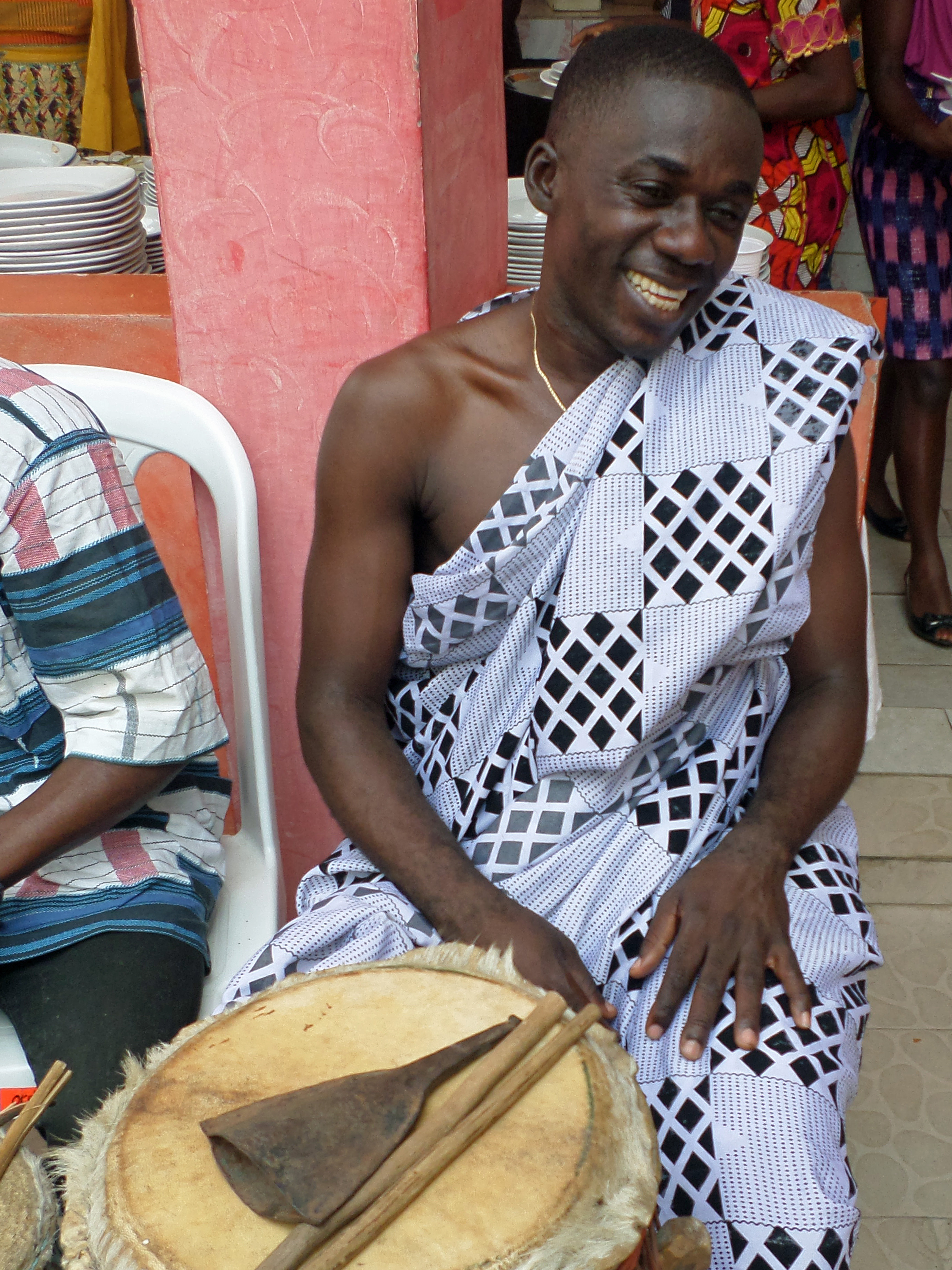 This is an image of Cultural Fashion or Adornment from Ivory Coast